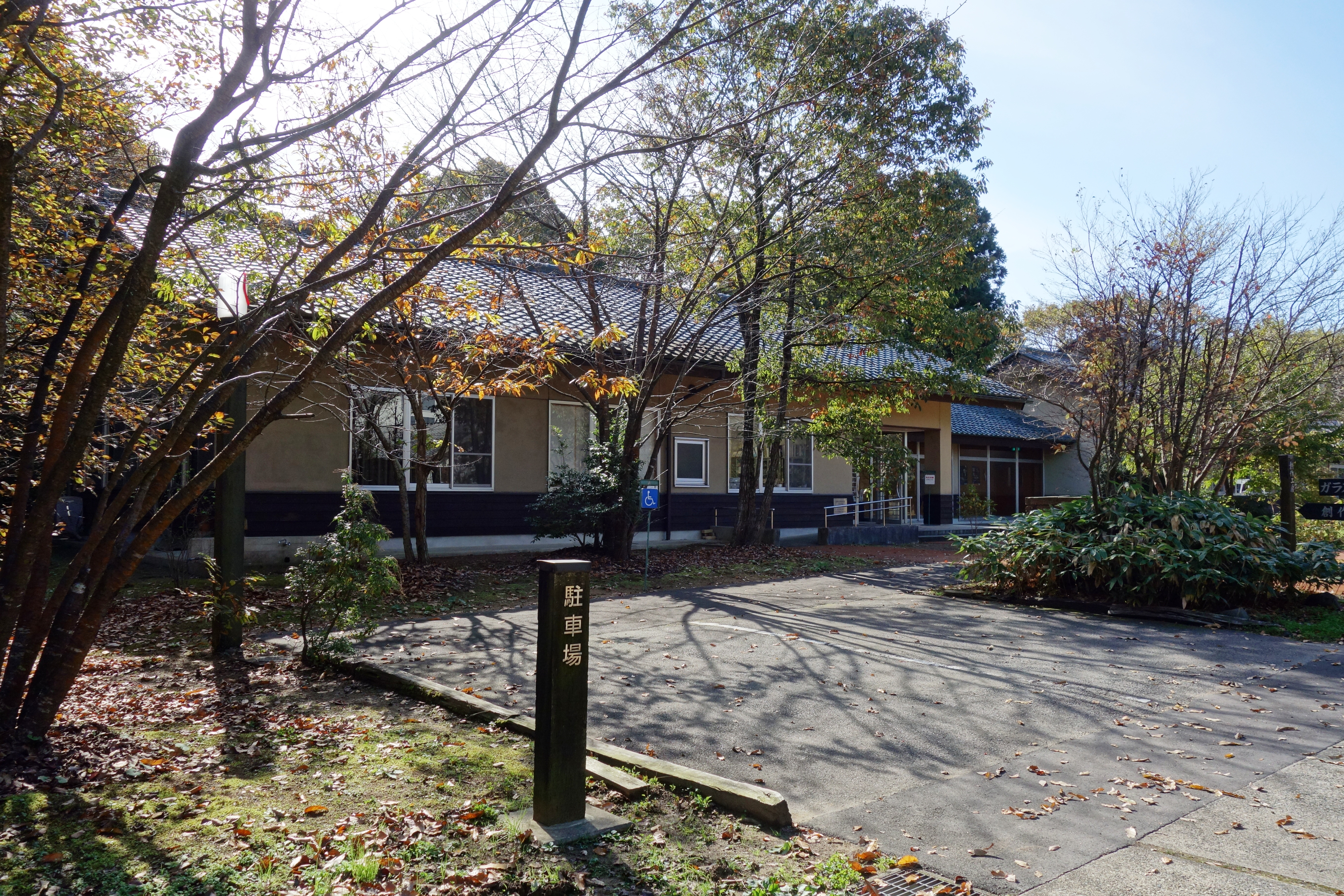 Creation atelier, Kanaz Forest of Creation (Awara-shi, Fukui Pref., Japan)